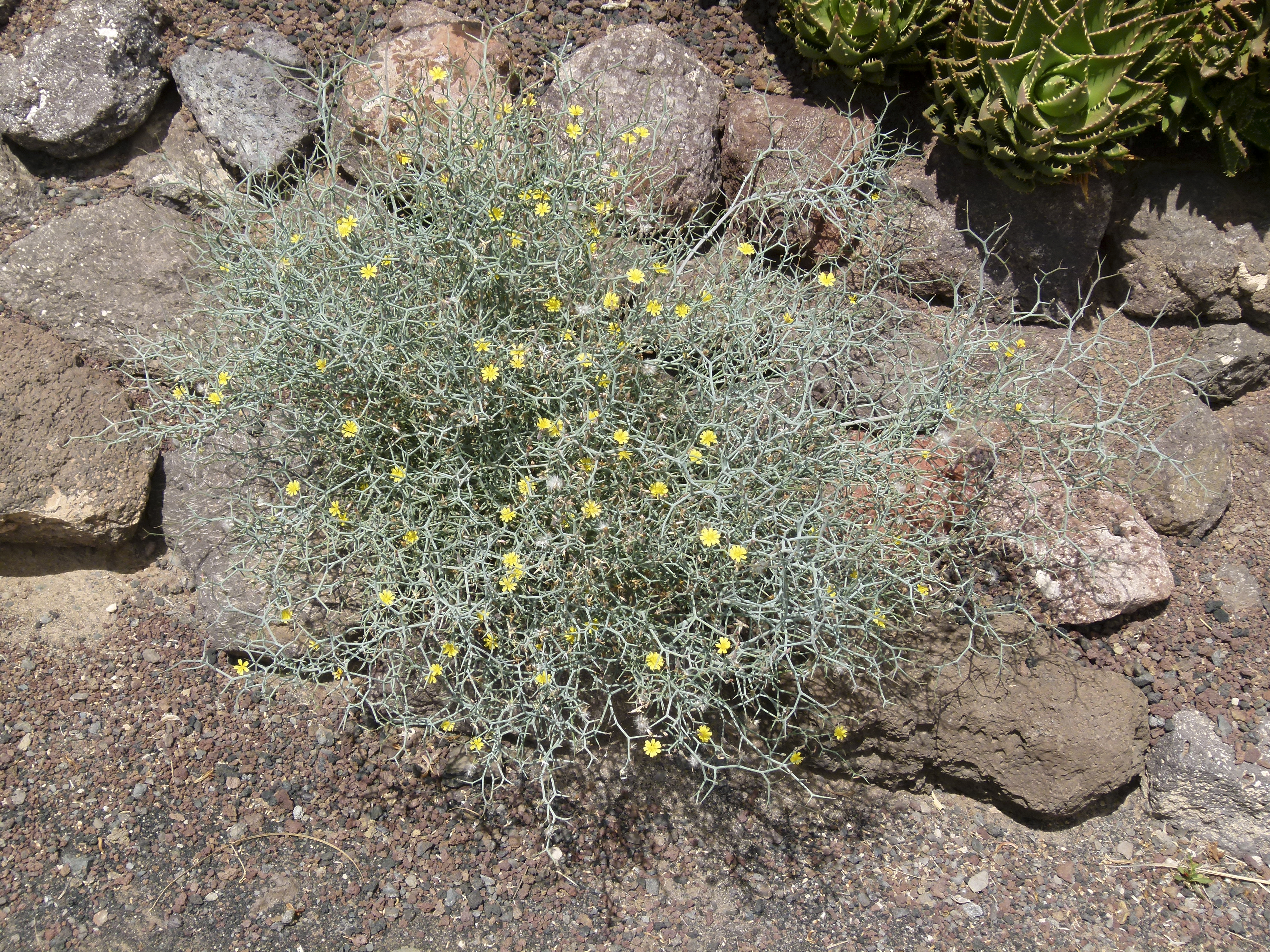 Launaea arborescens in the Oasis Park botanical garden, La Lajita, Pájara, Fuerteventura, Canary Islands, Spain